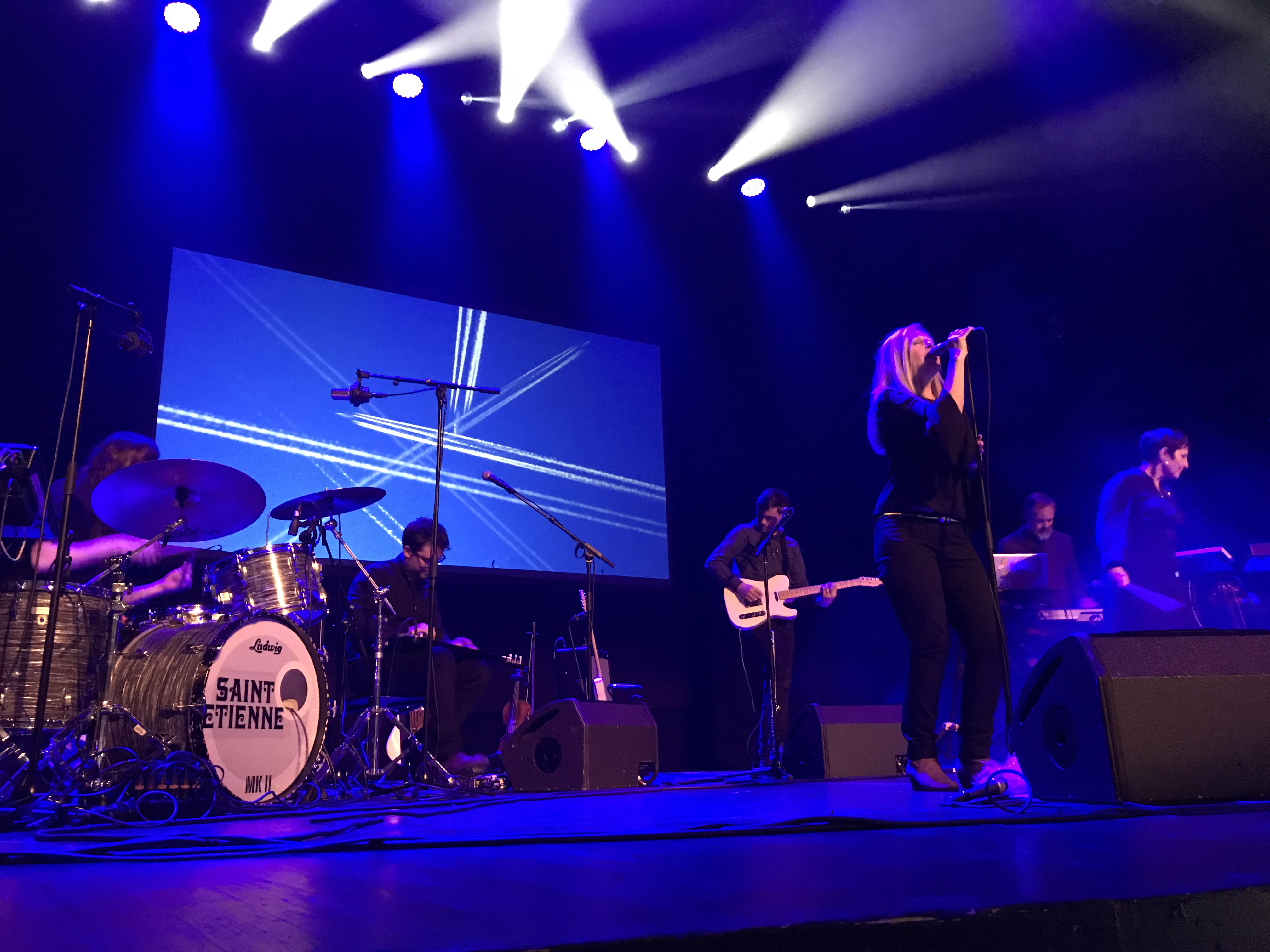 Concert with Saint Etienne at Stora Teatern in Gothenburg, October 24, 2017.